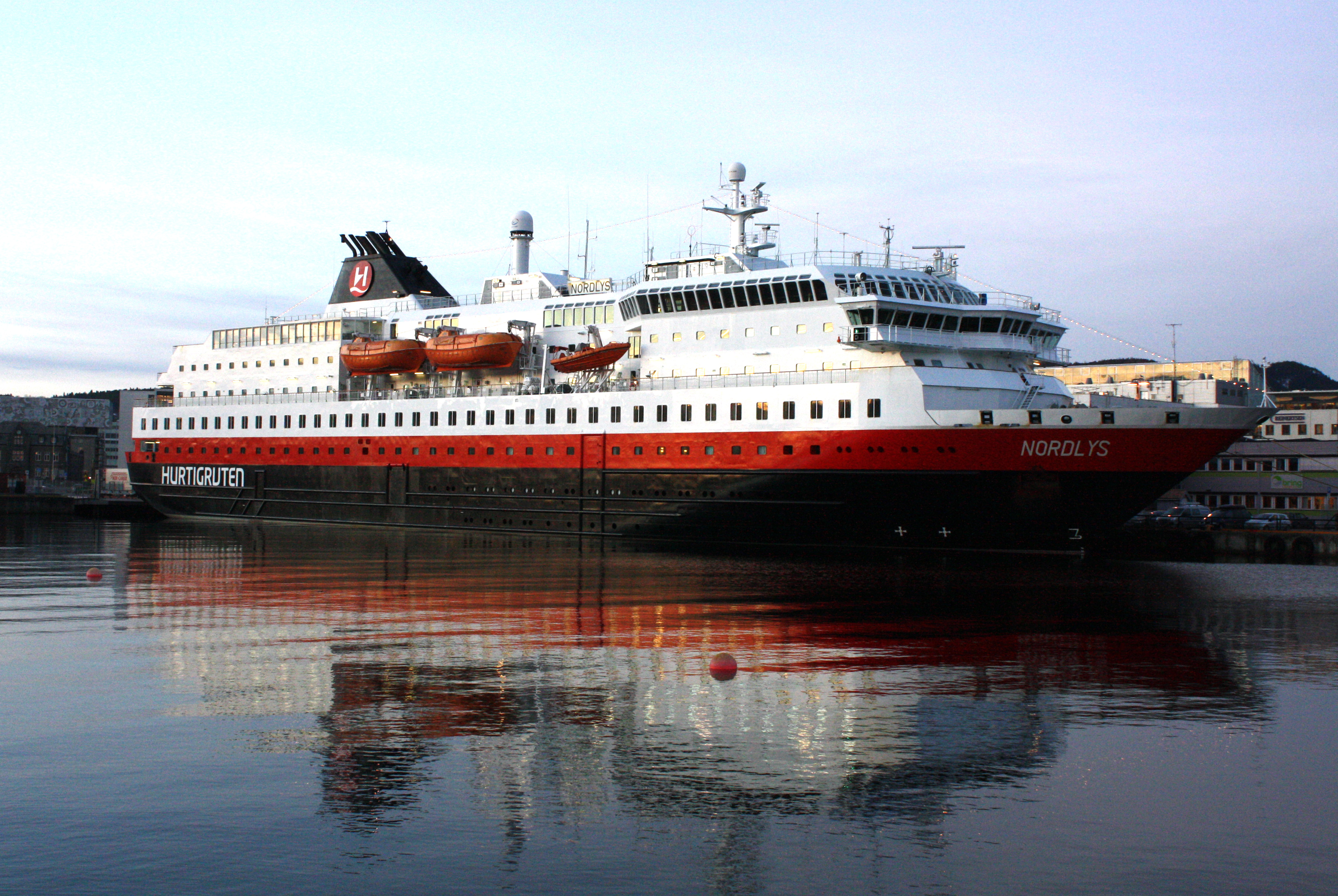 Hurtigruteskipet Nordlys ved kai i Trondheim havn. Information about Nordlys may be found at IMO 9048914. A ship can change name and flag state through time, but the IMO number remains the same through the hull's entire lifetime. As a result, it can be useful to identify a ship by using the IMO number.